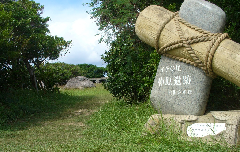 Nakabaru Ruin in Ikei Island, Uruma, Okinawa Prefecture, Japan.